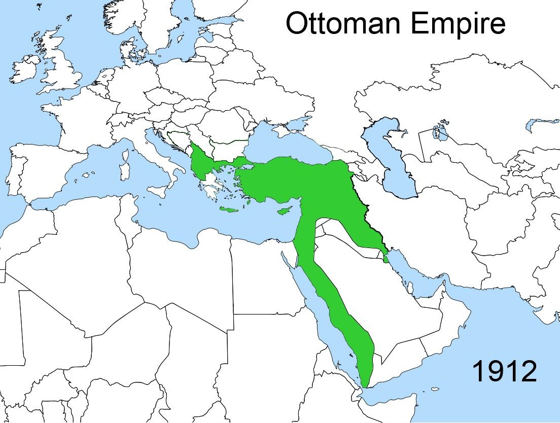 Territorial changes of the Ottoman Empire